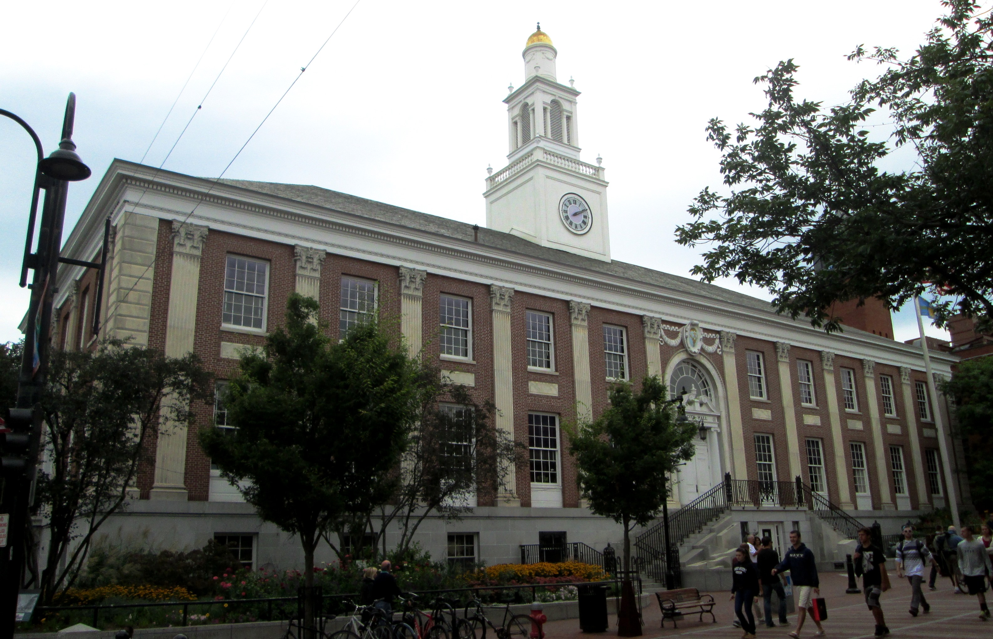 Burlington City Hall located at the corner of Church and Main Streets, east of City Hall Park, in Burlington Vermont, was built in 1928 in the Neoclassical style with Georgian aspects, and was designed by W. M. Kendall of McKim, Mead & White. It is part of the City Hall Park Historic Distoric. (Source:[1])